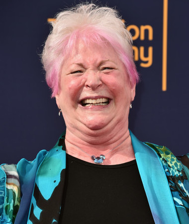 Voice actress Russi Taylor attending the 2018 Creative Arts Emmy Awards at the Microsoft Theater.